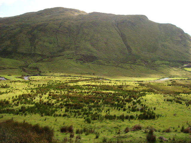 Sruell : Croaghgorm